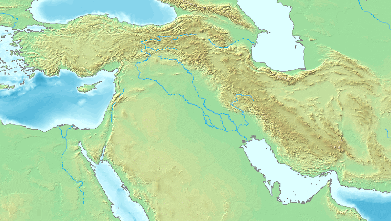 Near East non political